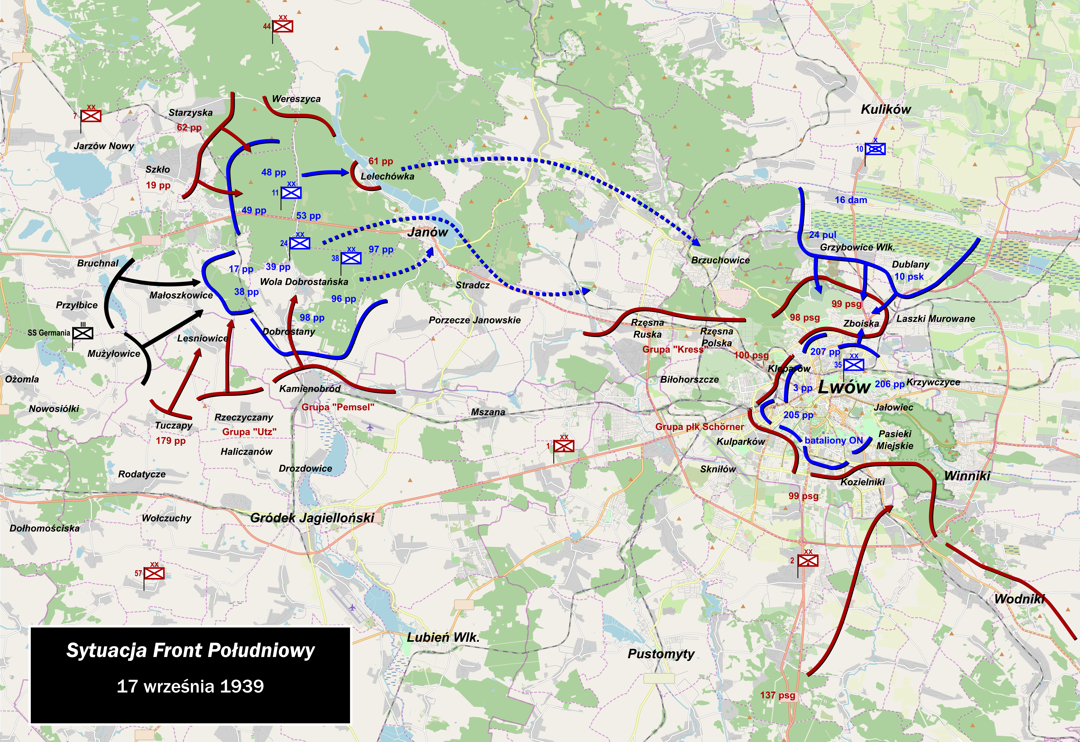 Strategic map of the Jaworów - Lwów region showing the situation of the Polish Southern Front, September 17 1939. Heavily influenced by Krzysztof Komorowski's "Boje Polskie 1939-1945" and Wojciech Zalewski's "Wielki Atlas Kampanii Wrześniowej 1939".